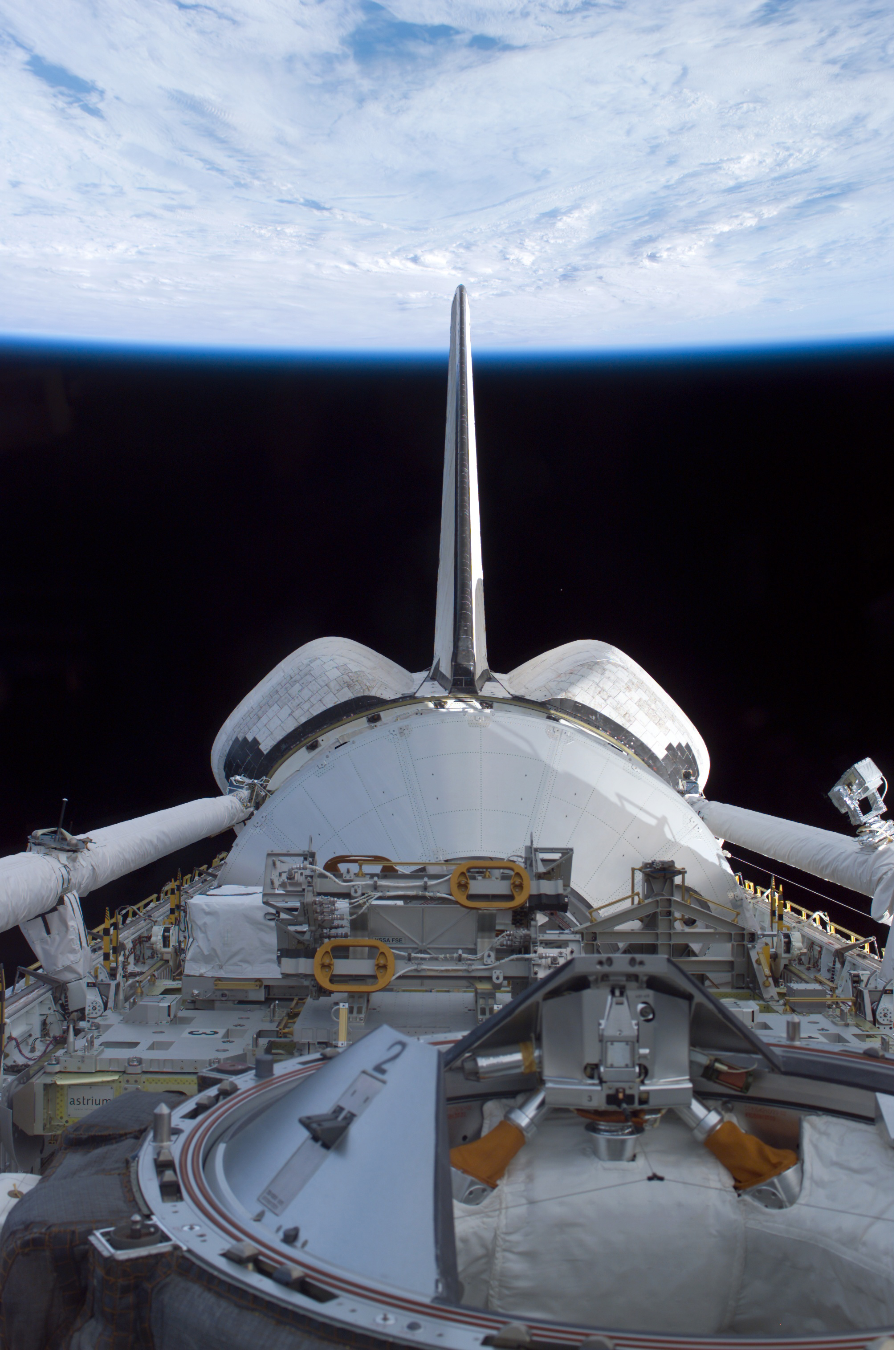 Discovery's cargo bay over Earth's horizon was photographed by one of the seven STS-114 crew members as the Shuttle approached the International Space Station.